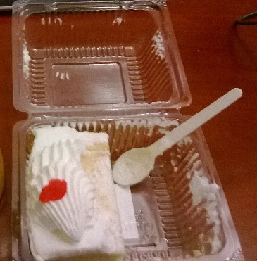 shanghai ruby cream cake